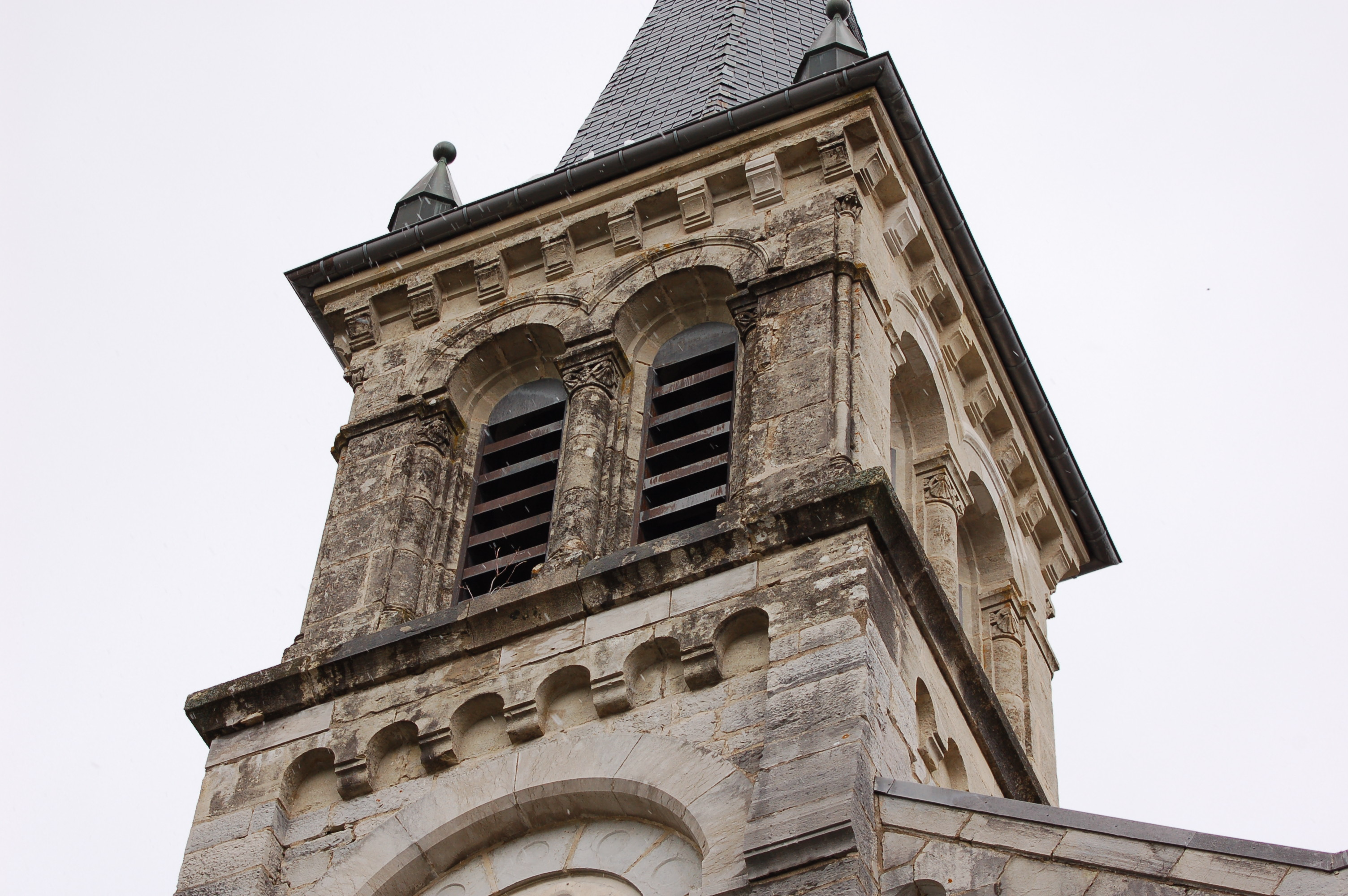 Detail of the church of Sainte-Foy to the Allies (25).